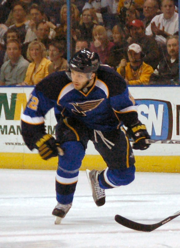 Derivative of File:LeeStempniak JanHejda.jpg: #12 Lee Stempniak